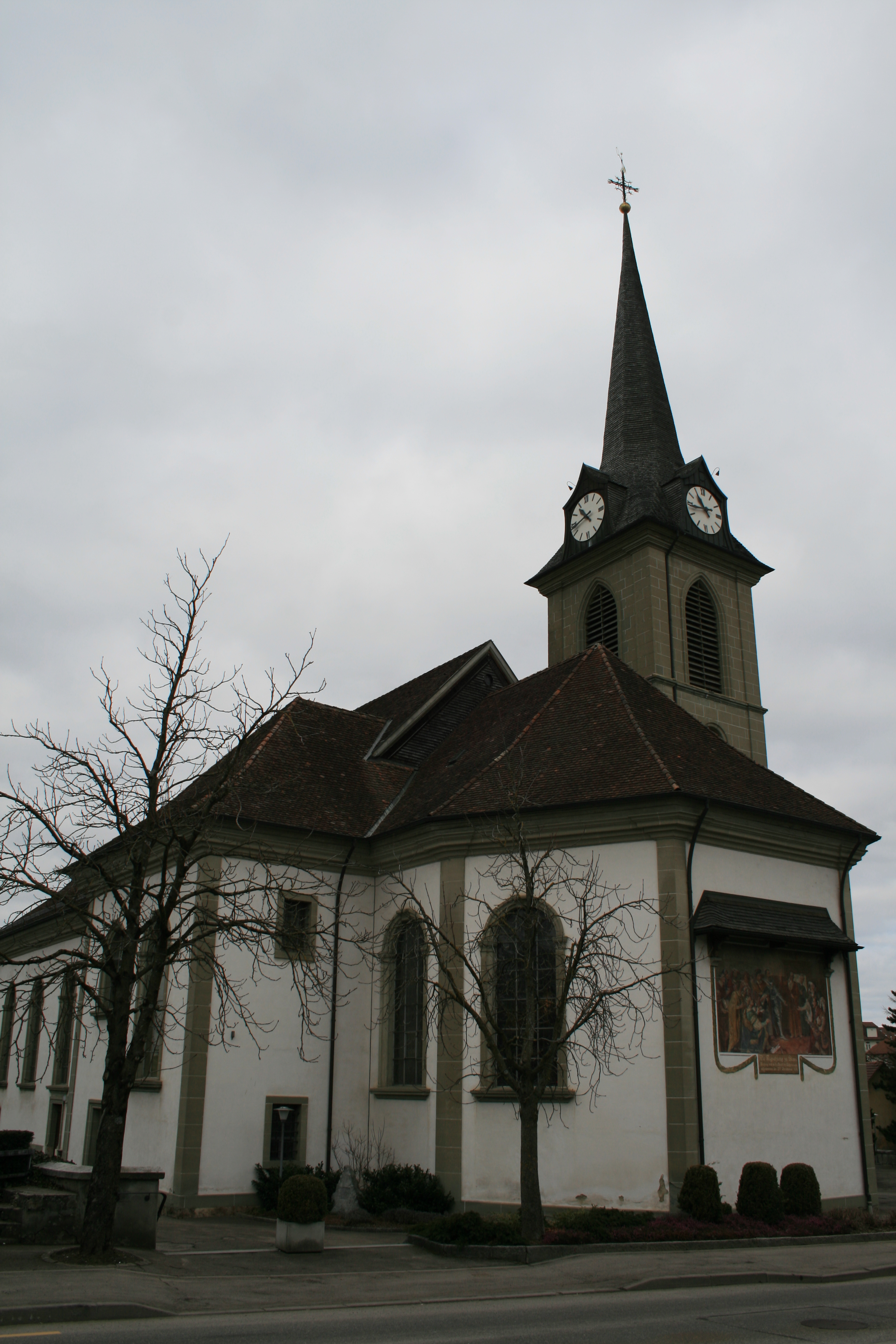 Rom.-cath. Church of Düdingen FR, Switzerland